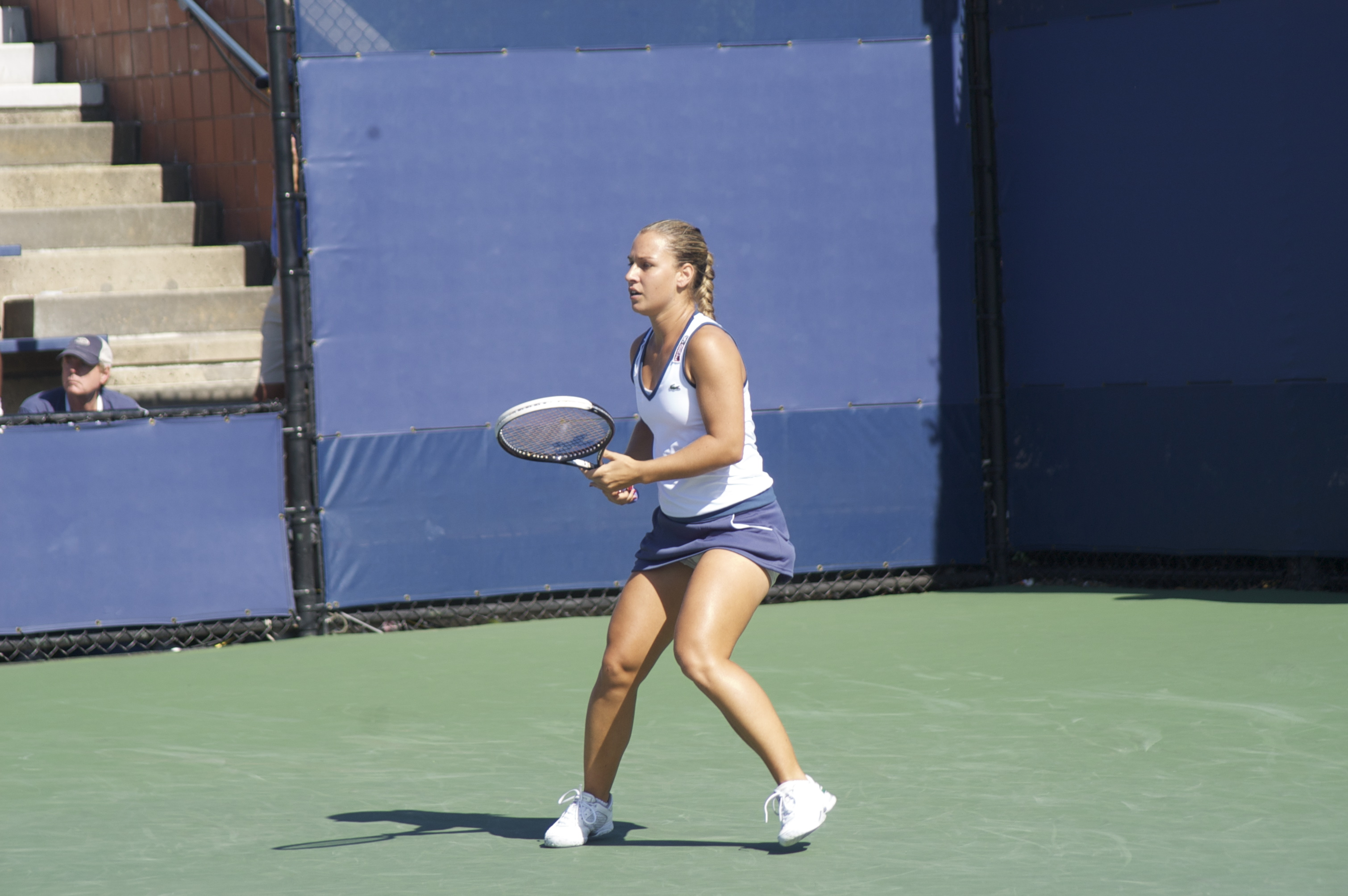 Dominika Cibulková at the 2008 US Open